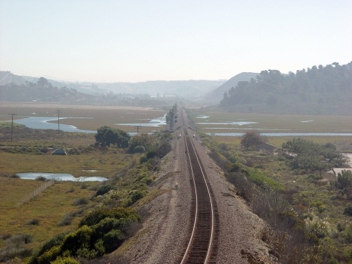 railroad tracks and its embankment, crossing Los Penasquitos Lagoon